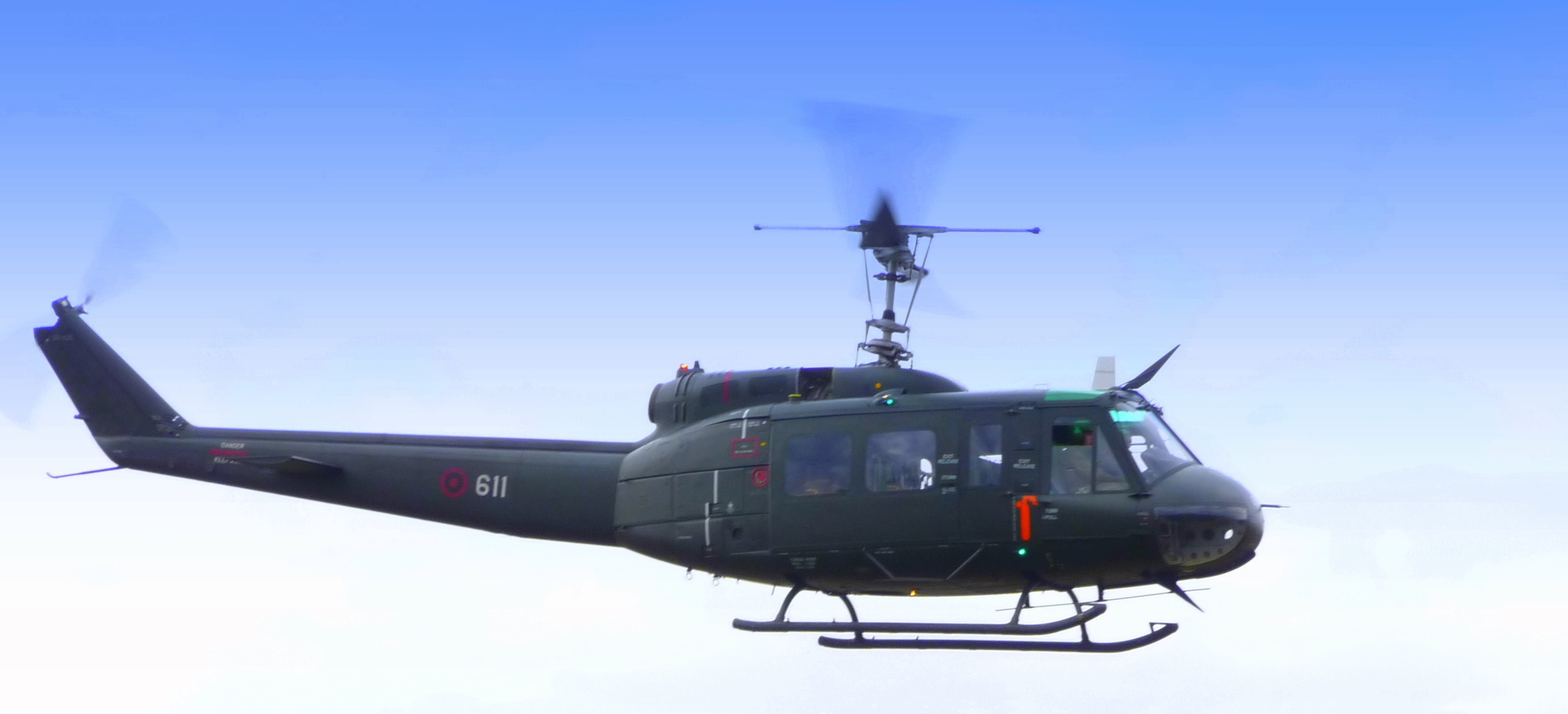 Albanian AB-205 flying